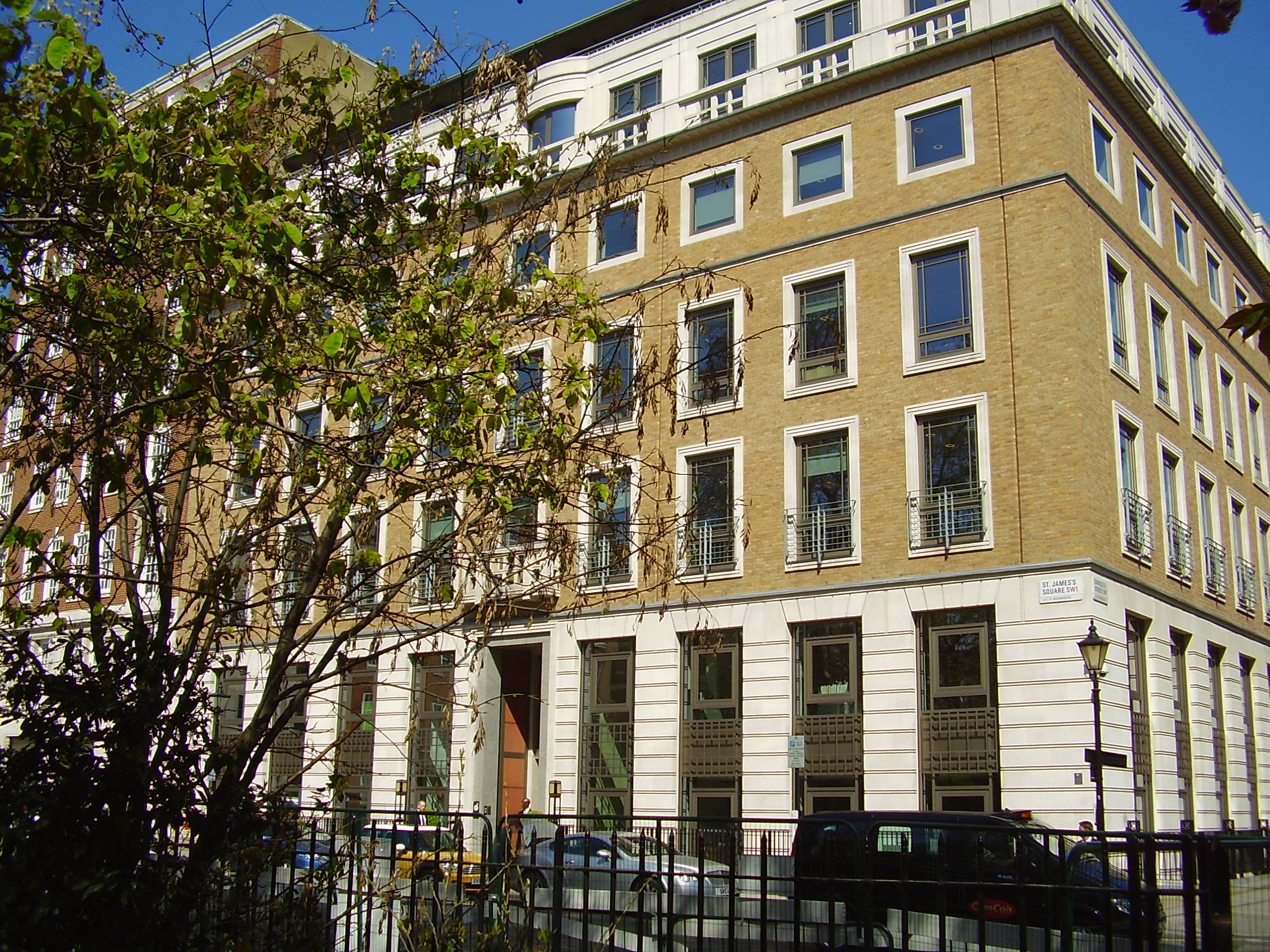 The head office of BP